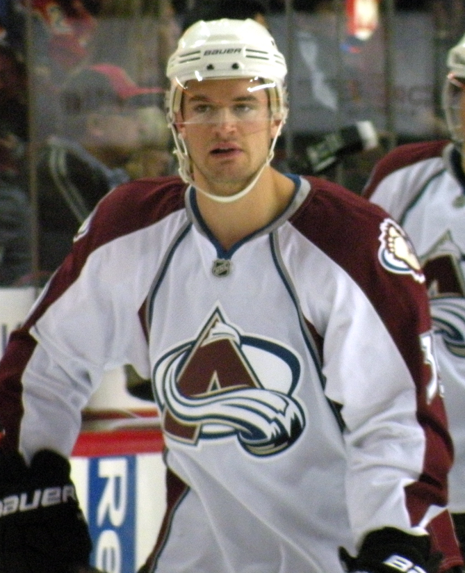 Colorado Avalanche forward T. J. Galiardi prior to a National Hockey League game against the Calgary Flames, in Calgary.